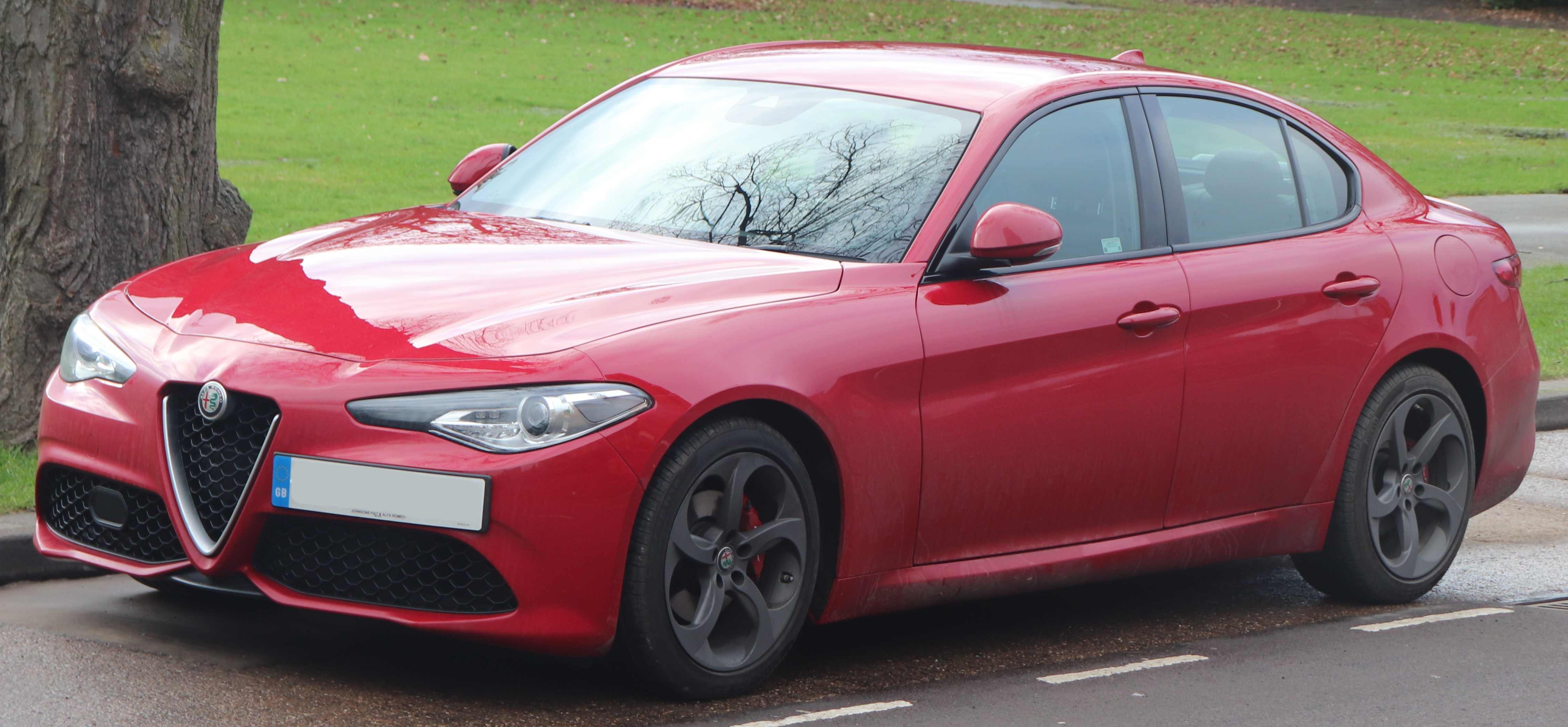 2017 Alfa Romeo Giulia Speciale TD Automatic 2.1 Front Taken in Leamington Spa